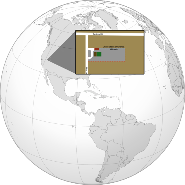 A smaller map of Molossia and its borders with the USA.